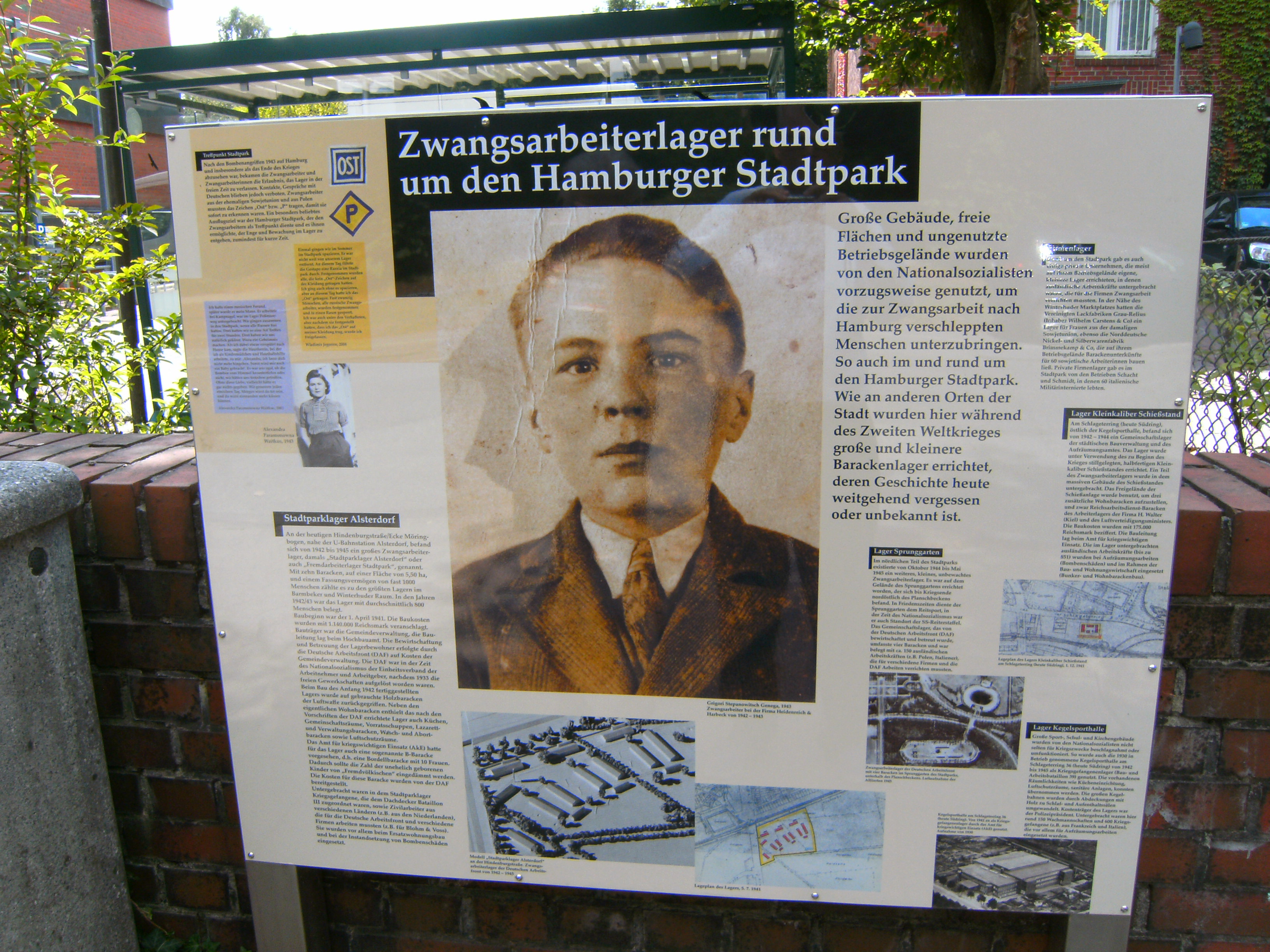 Hamburg, Germany, Hamburger Stadtpark (urban park in Hamburg), Südring 38: Information board on labour camps around Hamburger Stadtpark.